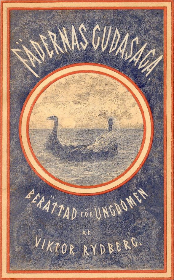 The cover of the swedish version of Our Fathers' Godsaga by Viktor Rydberg illustrated by John Bauer in 1911